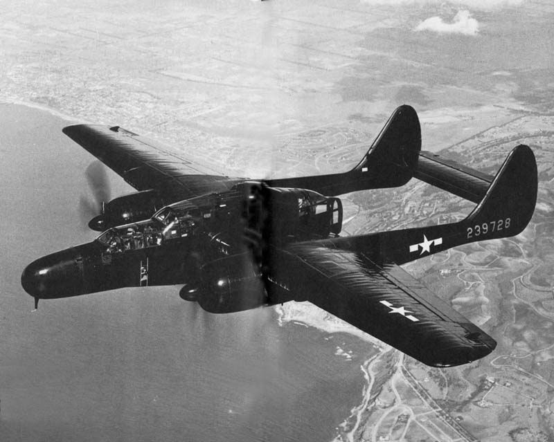 Northrop P-61B-15-NO Black Widow 42-39728. Aircraft retired and sent to reclamation at Brookley Field, Alabama, Jul 14, 1949